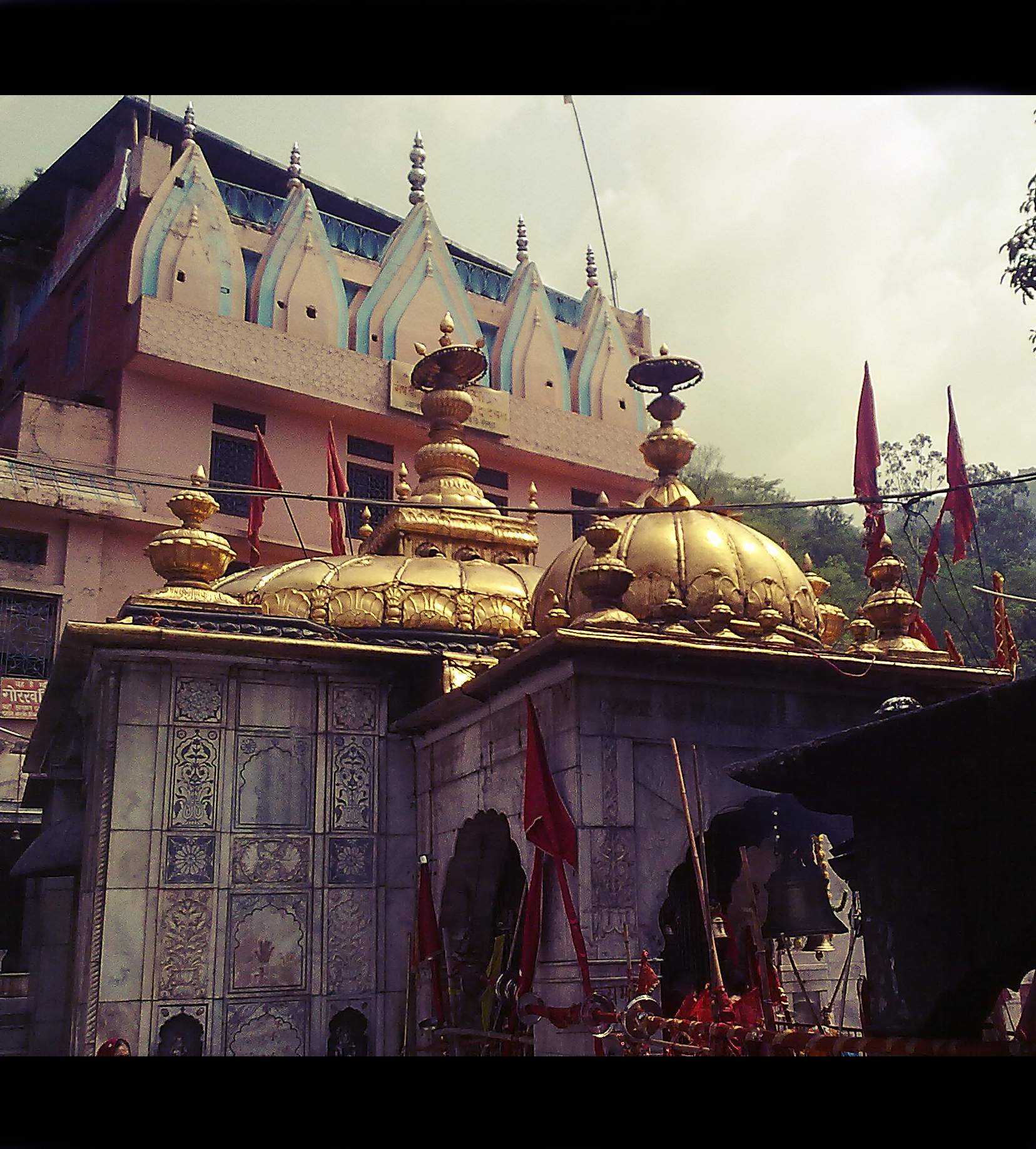 Jwalamukhi Devi Temple